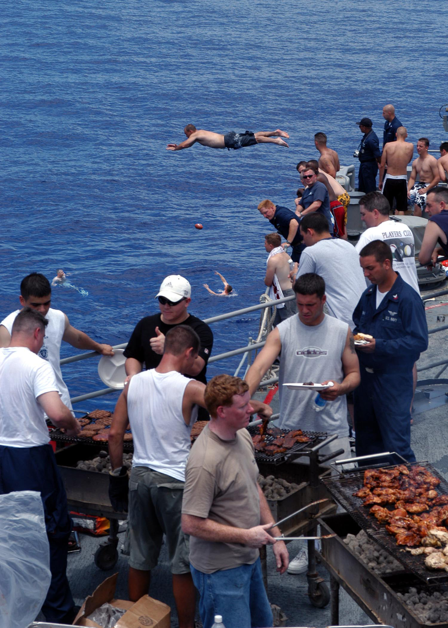 Philippine Sea (Jun. 08, 2003) -- Sailors aboard the guided missile cruiser USS Antietam (CG 54) enjoy a swim call and a steel beach picnic in the warm waters of the Western Pacific. Steel beach picnics give Sailors a day to relax and have fun after being out to sea for extended periods of time. Antietam is part of the USS Carl Vinson (CVN 70) Carrier Strike Group on deployment in the Western Pacific Ocean. U.S. Navy photo by Photographer's Mate 2nd Class Jeremie Kerns. (RELEASED)